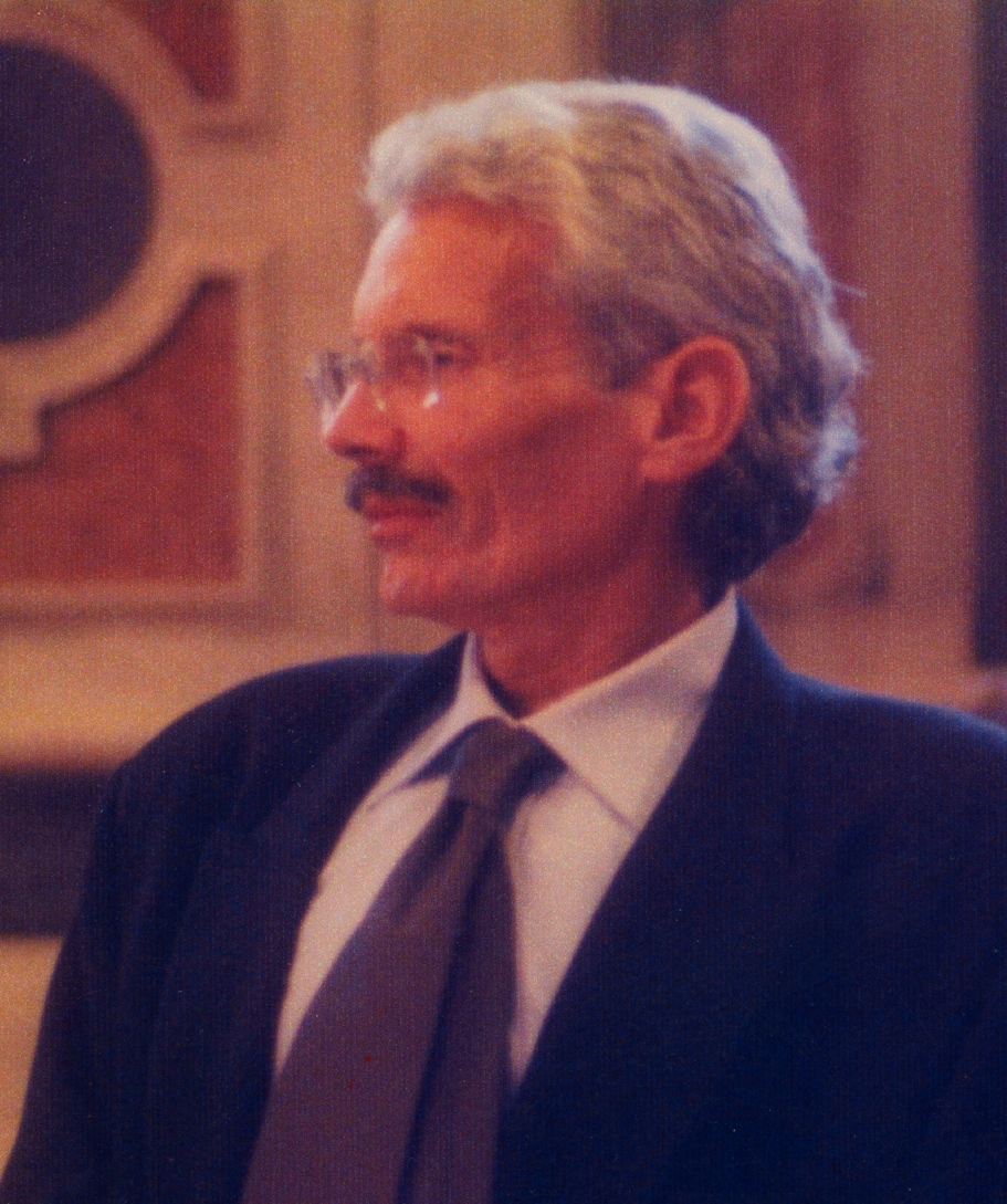 italo valent